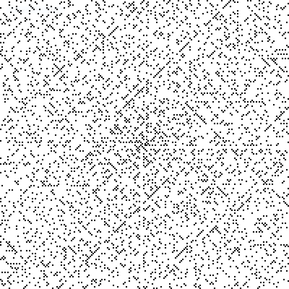 200×200 Ulam spiral. Source: Made by Wokstym with an own program written in C++